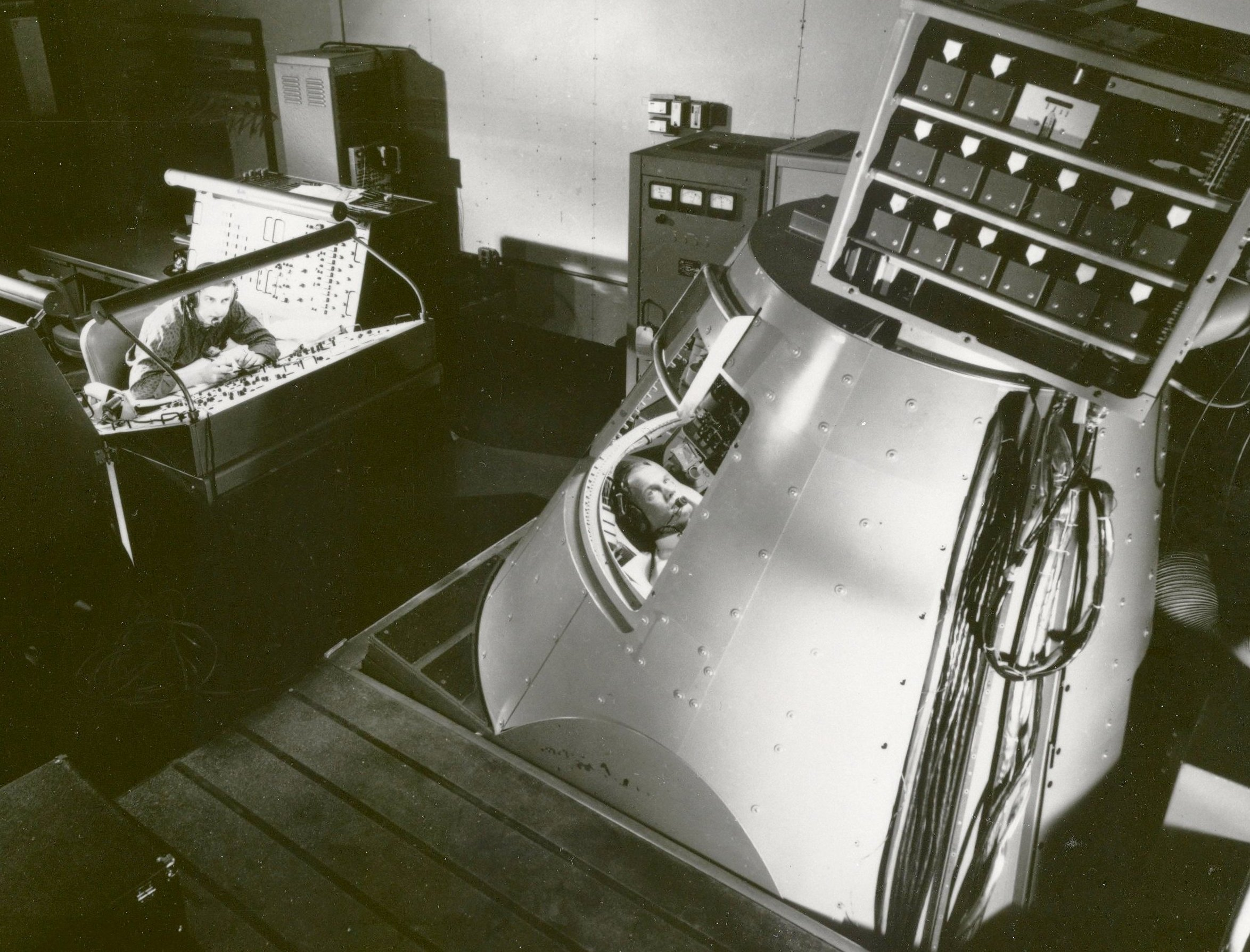 John H. Glenn, one of the Mercury Seven Astronauts, runs through a training exercise in the Mercury Procedures Trainer at the Space Task Group, Langley Field, Virginia. This Link-type spacecraft simulator allowed the astronaut the practice of both normal and emergency modes of systems operations.